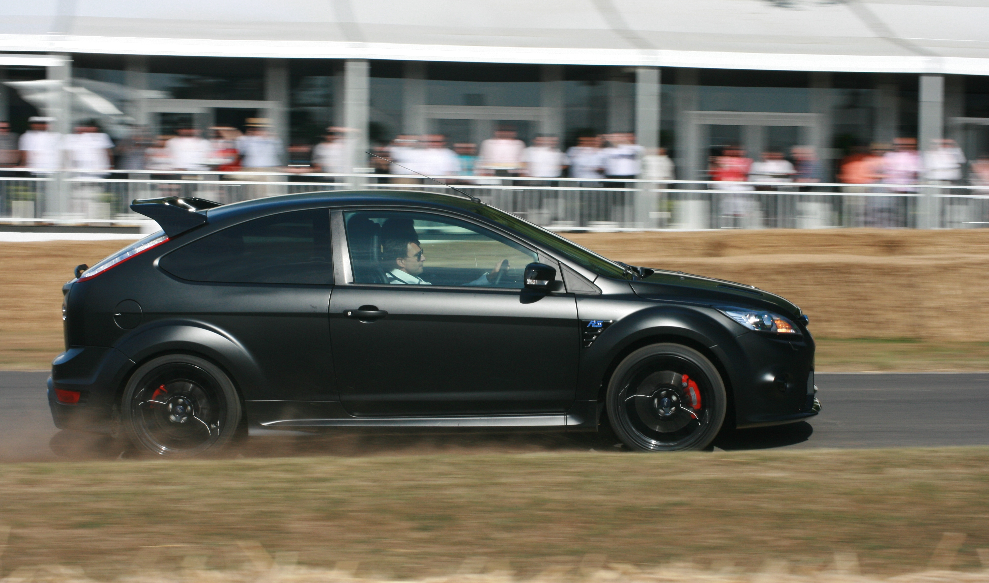 Run out version of working class hero Focus RS. Matt black paint, more power etc etc